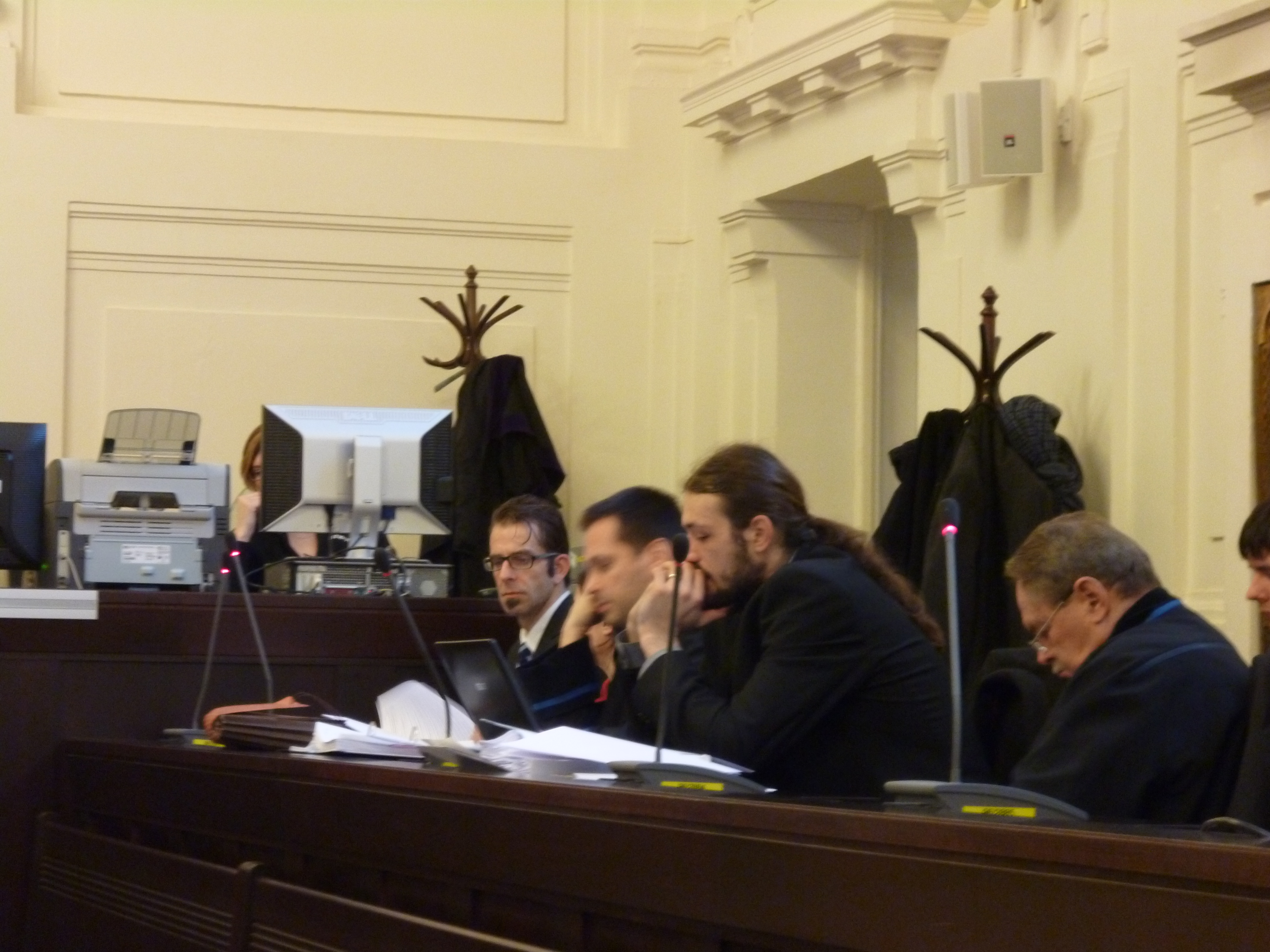 Randy Blythe's defense team during Blythe's manslaughter trial